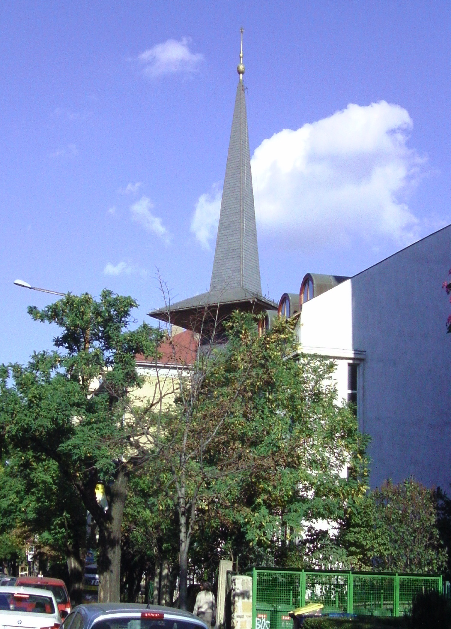 Budahegyvidék Reformed Church. - Budapest, XII.Böszörményi út 28.